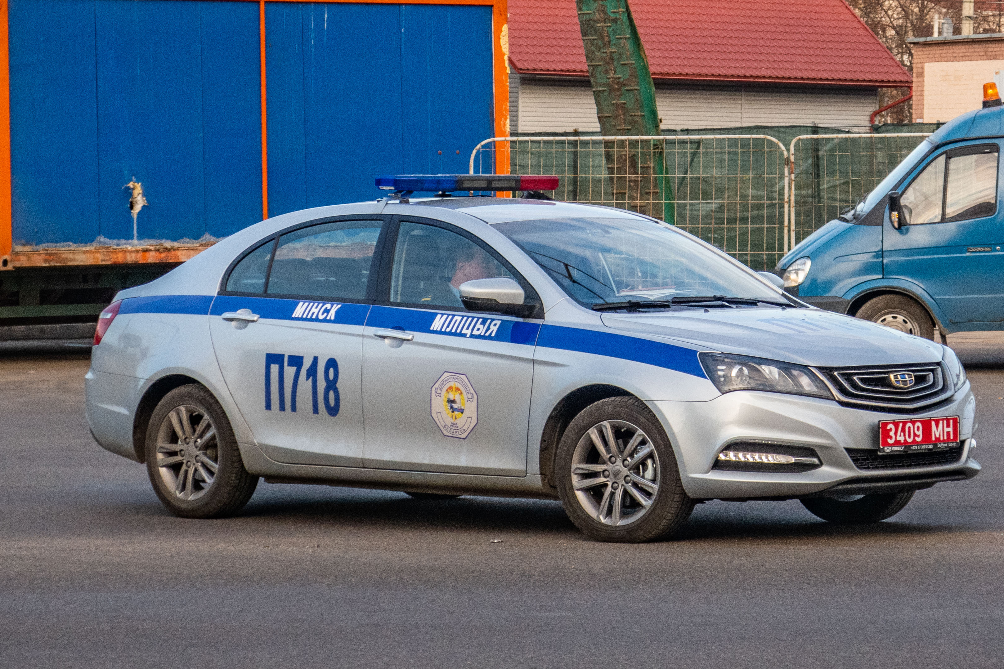 Geely Emgrand of Belarusian police (milicya). Minsk, Belarus